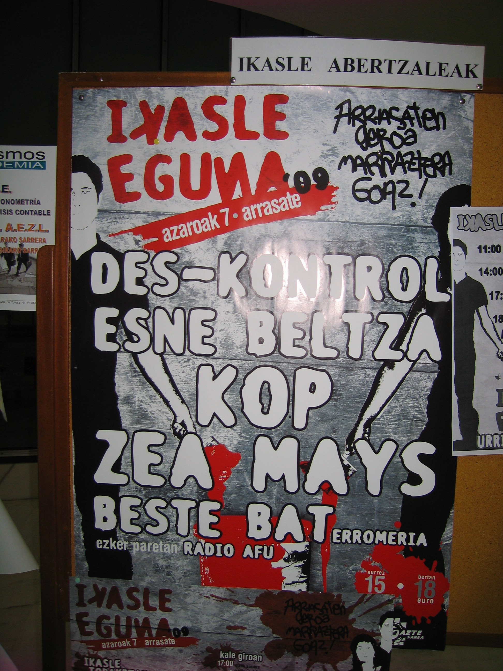 Ikasle Abertzaleak student organization day. 2009